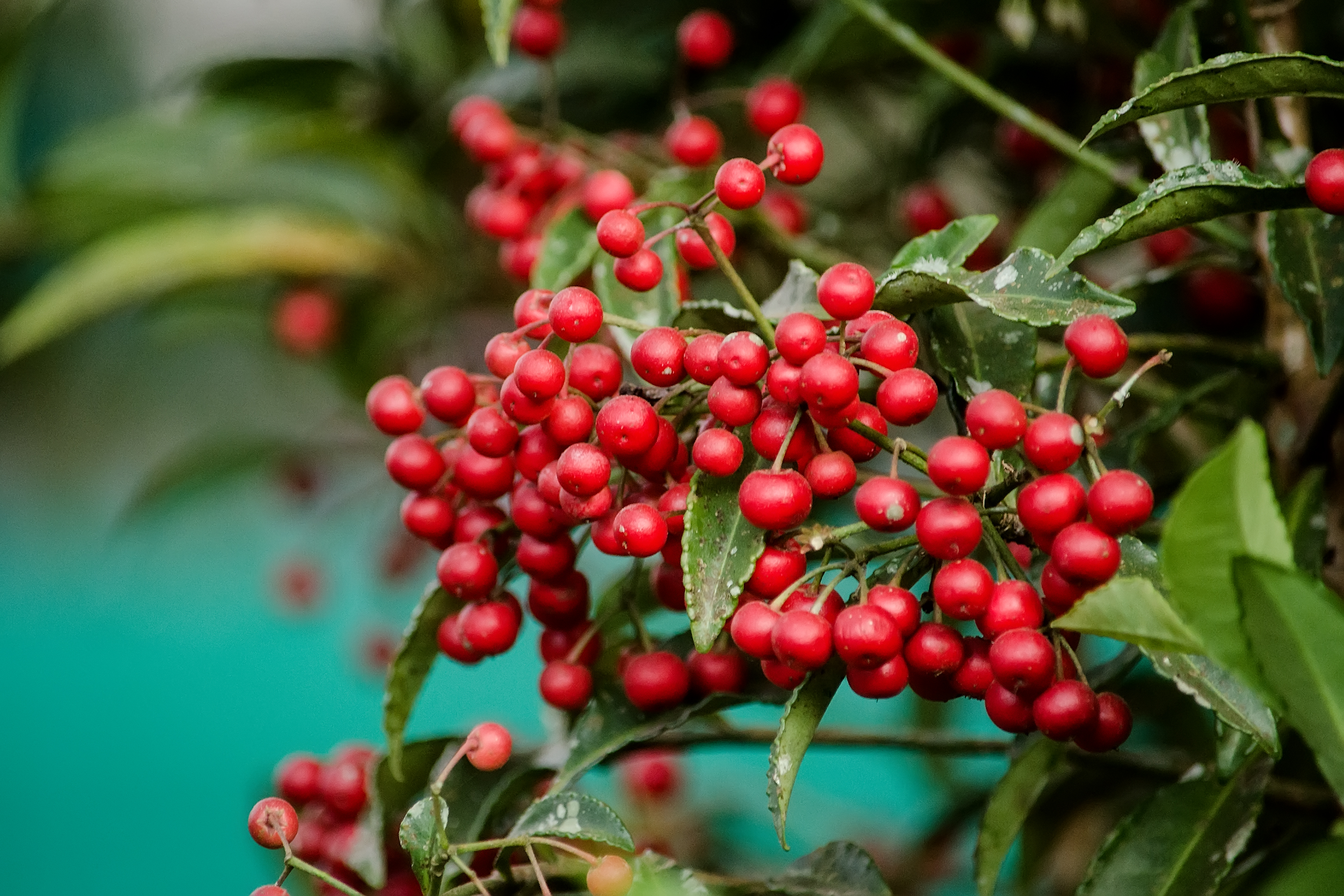 Ardisia crenata plant